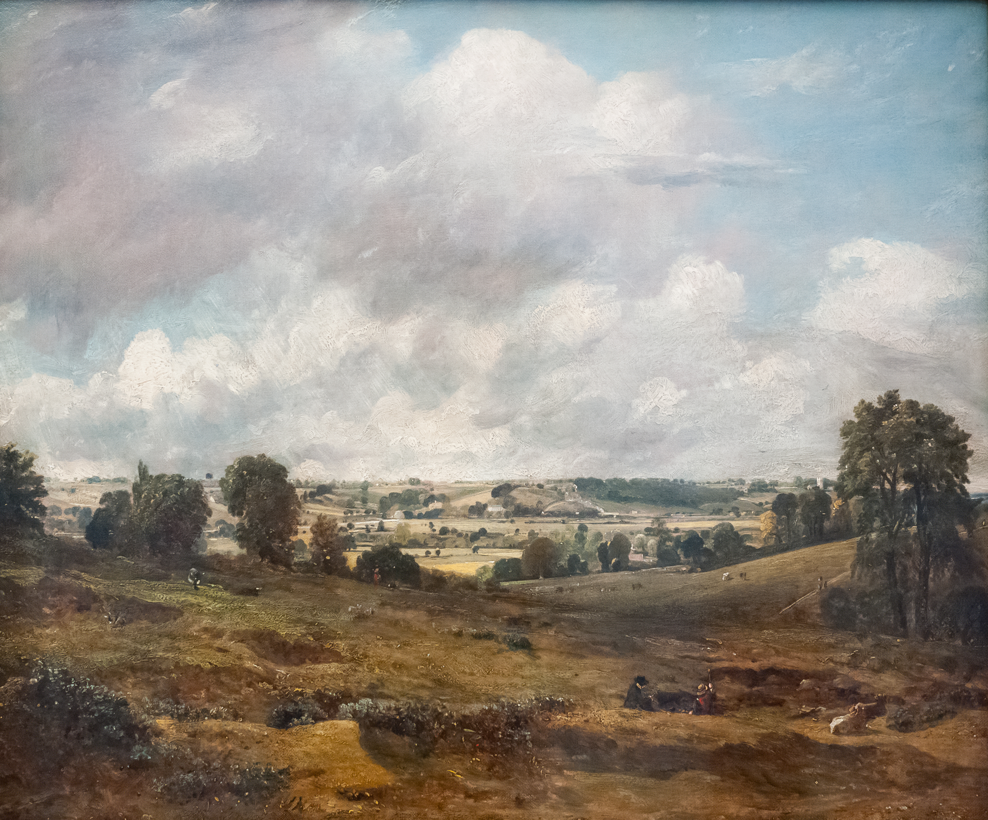 View of Dedham Vale from East Bergholt